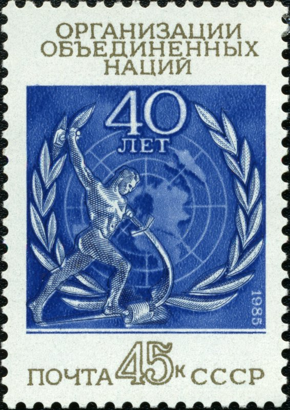 A USSR stamp, 40th Anniversary of UNO. Date of issue: 26th June 1985. Designer: Yury Artsimenev. Michel catalogue number: 5525. 45 K. bright blue and gold. Sculpture “Beating Swards into Ploughshares” (E.V. Vuchetich, 1957).